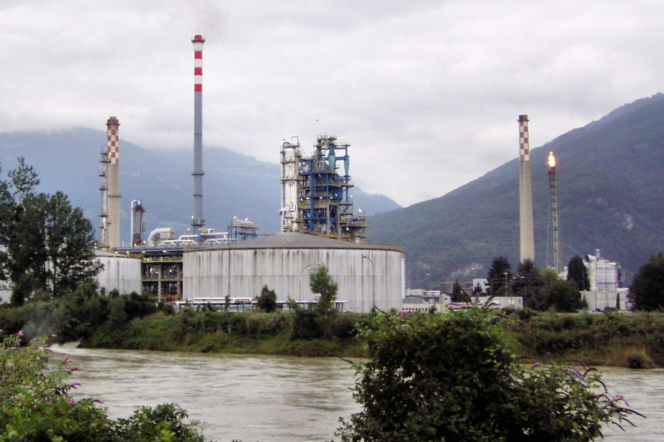 Collombey refinery of Tamoil next to Rhone river in Vaud canton in Switzerland.